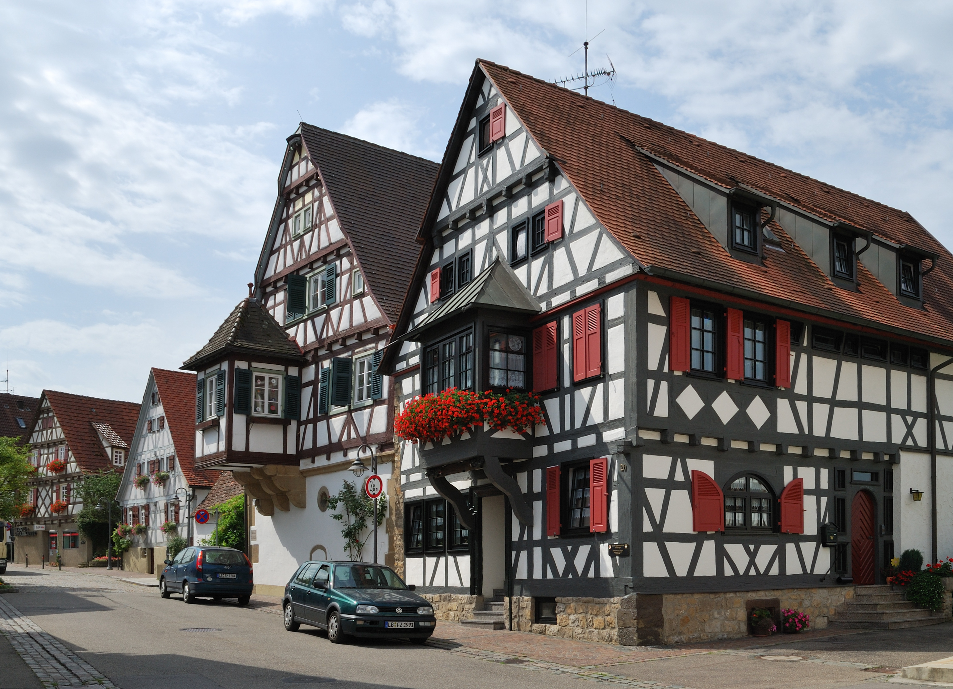 Schöckingen, Schloßstraße. Baden-Württemberg, Germany.